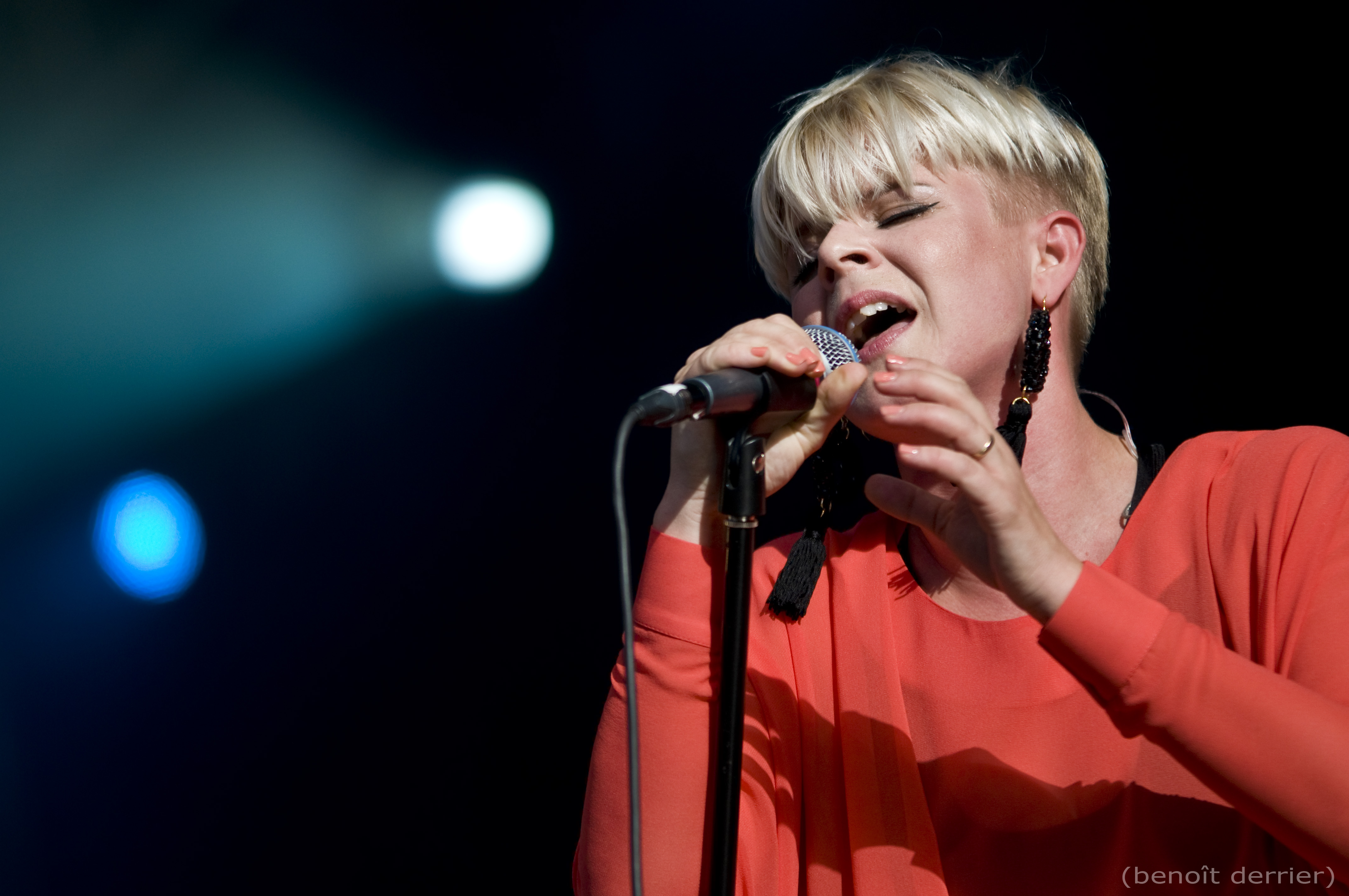 Robyn at Way Out West 2009, Göteborg, 14th august 2009.